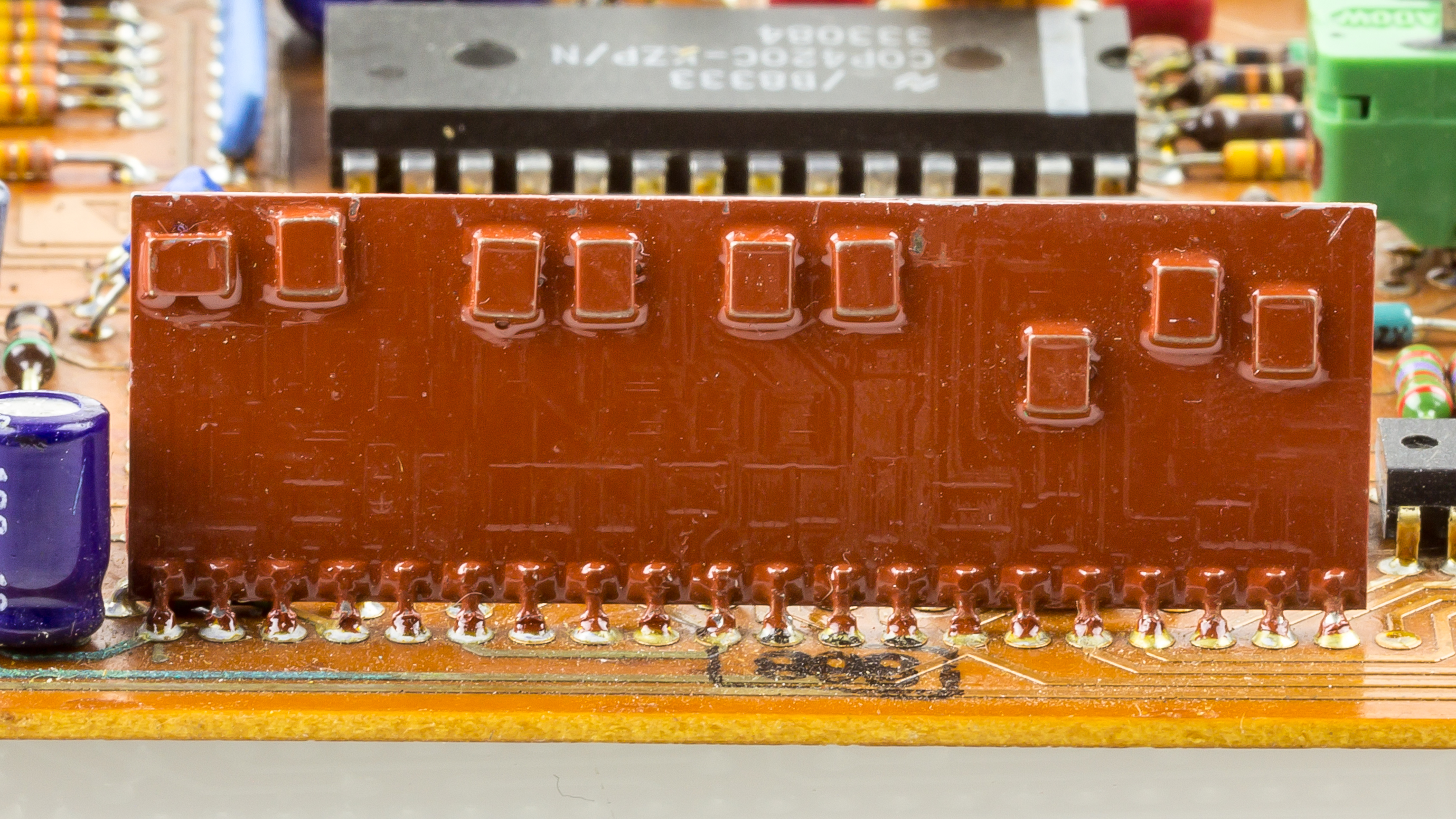 ANT Nachrichtentechnik DBT-03 - unknown part